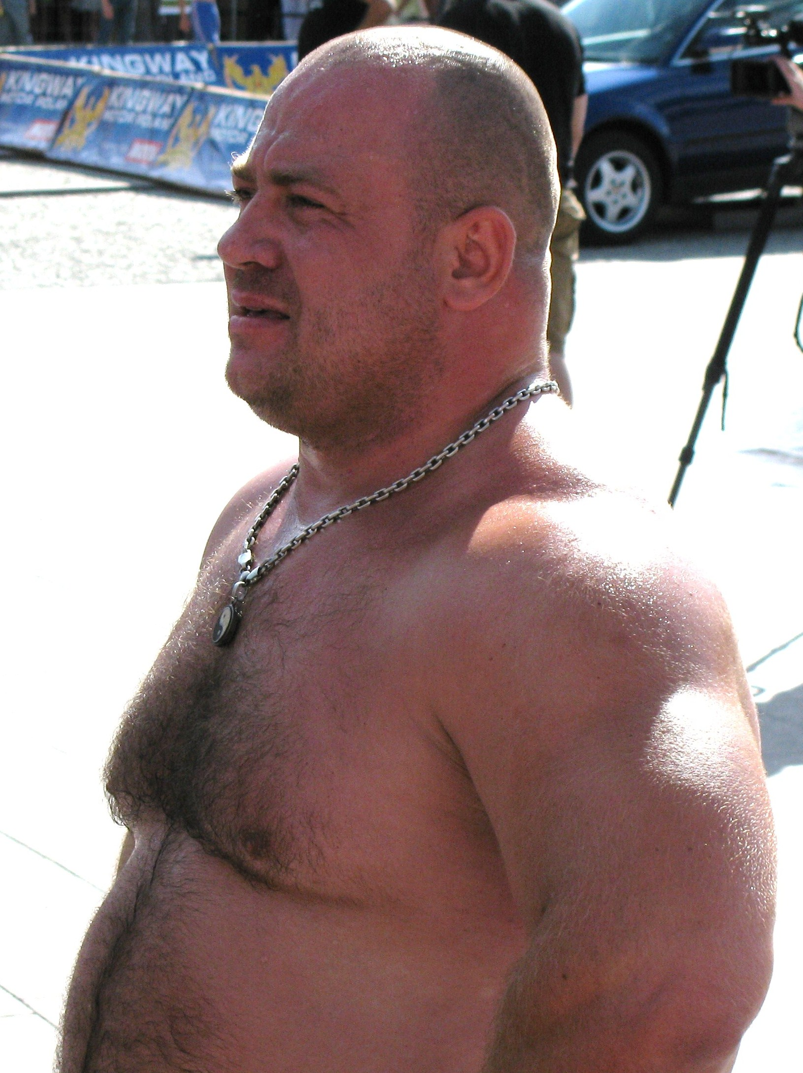 Kostiantyn Ilin - a strength athlete from Ukraine, Ukraine's Strongest Man 2009